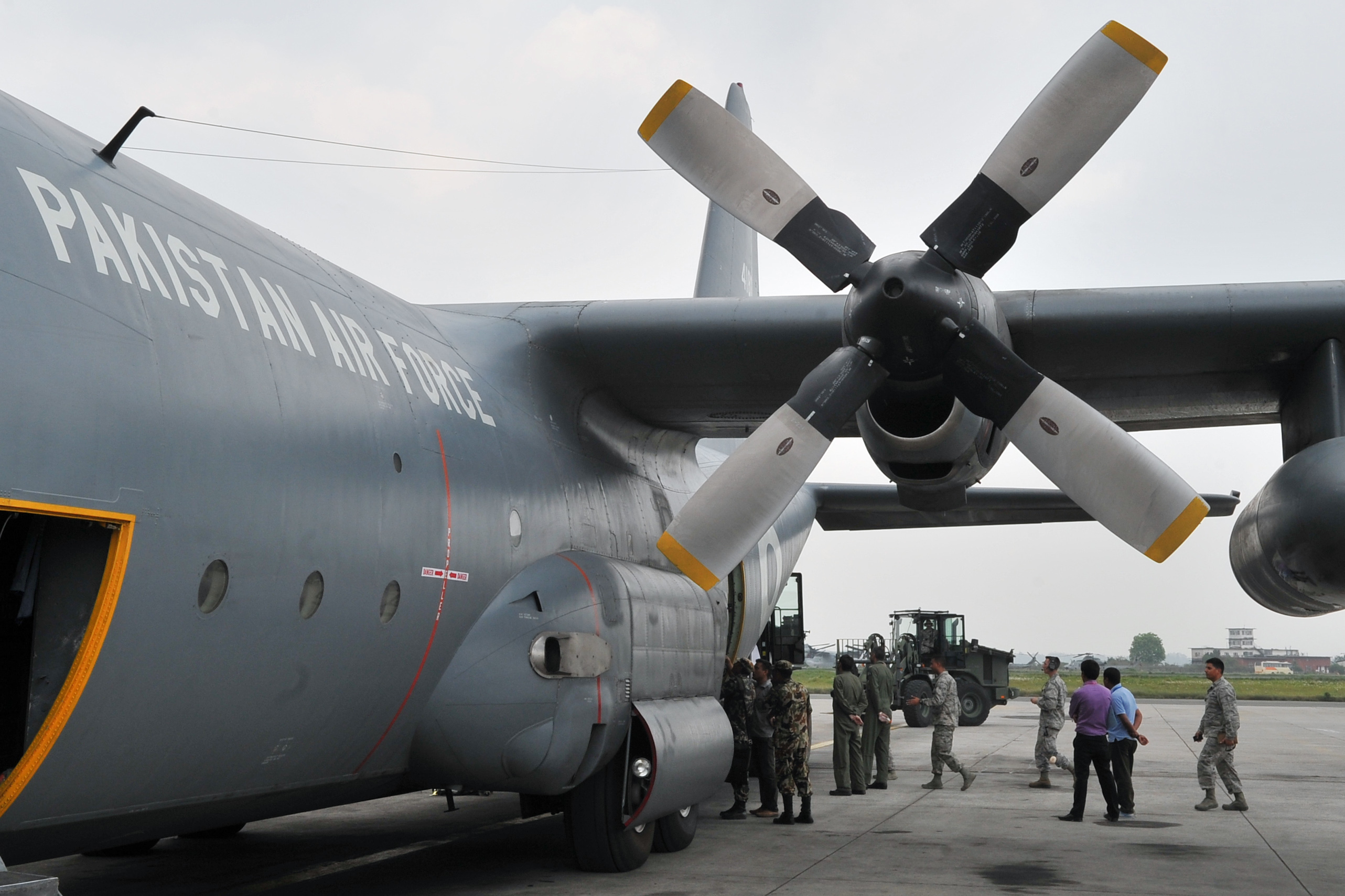 Nepalese Army soldiers and 36th Contingency Response Group Airmen unload relief supplies from a Pakistan Air Force C-130 Hercules May 8, 2015, at Tribhuvan International Airport in Kathmandu, Nepal. The Nepalese Army and Airmen worked with military members from the Pakistan Air Force to process cargo from their aircraft arriving in Nepal to provide disaster relief following a magnitude 7.8 earthquake that struck the nation April 25. (U.S. Air Force photo by Staff Sgt. Melissa White/Released)